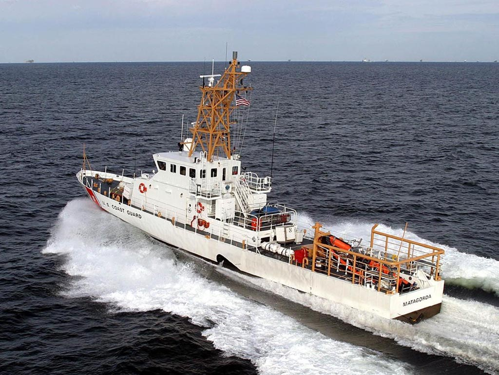 USCG Matagorda, a 123 foot Island class cutter